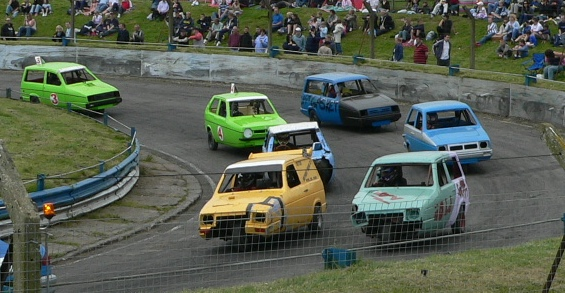 Reliant Robins and Reliant Regal Supervans in formation for the rolling start to a race at the Mendips Raceway near Cheddar in Somerset. Although essentially the same as the standard road-going versions, the vehicles have had a roll cage fitted and all the glass removed in preparation for the race track.